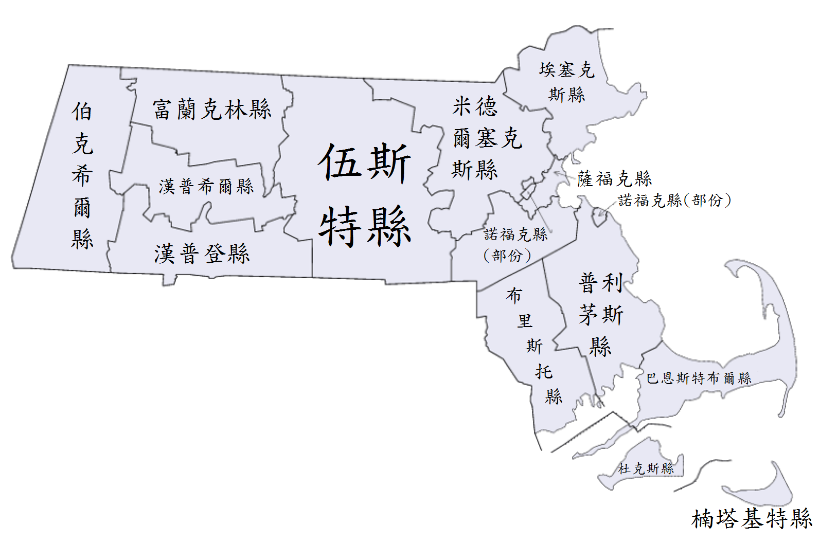 retouched picture of File:Massachusetts-counties-map.gif